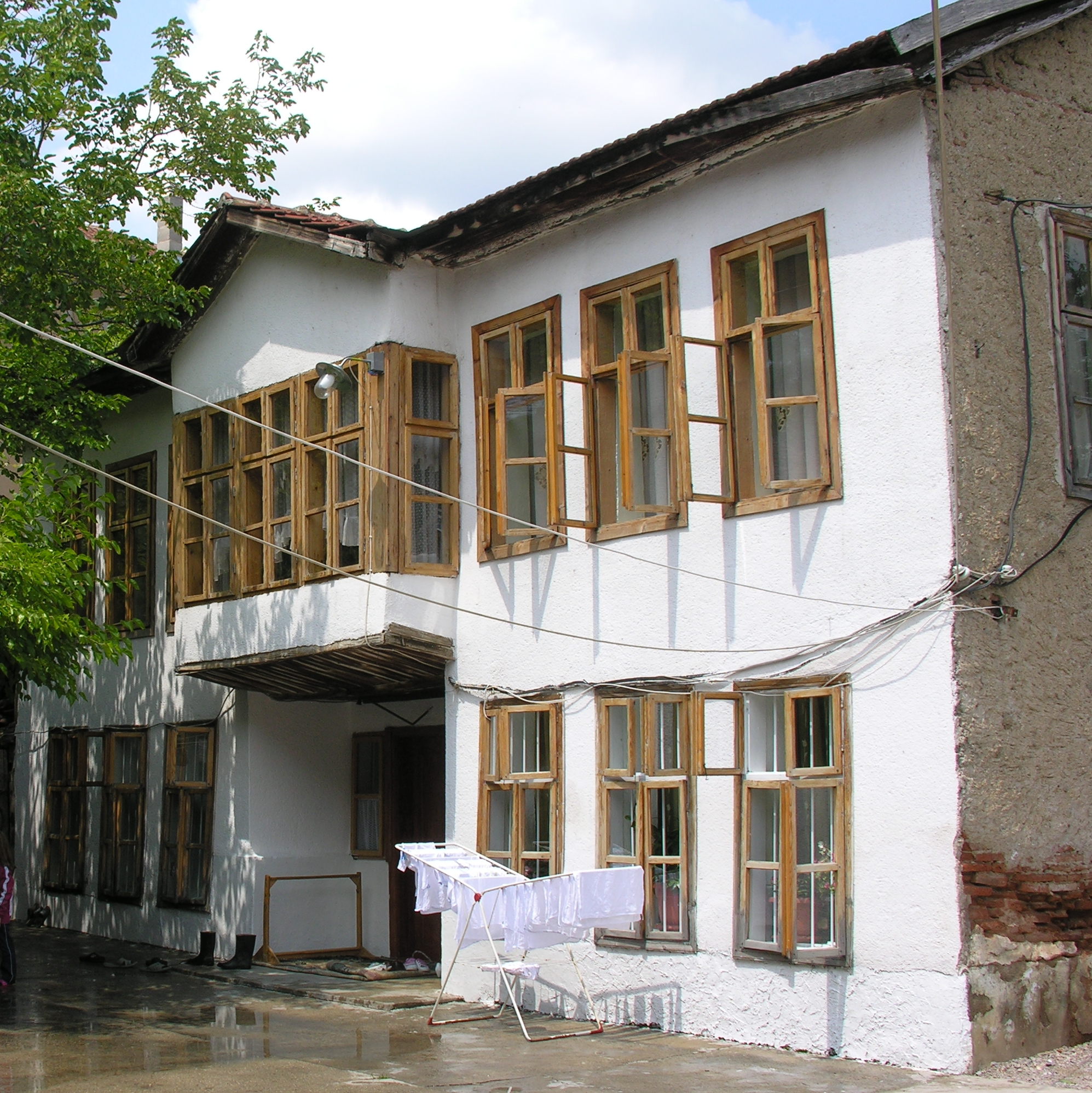 House of Isak Pozharani2